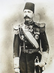 Admiral Ali Osman Pasha Ottoman monarch Sultan Abdul Hamid II was deeply impressed by Japan’s rapid modernization following the Meiji Restoration of 1868. His government approached Japan in the hope of forging ties of friendship; to which the Meiji government responded by dispatching Prince Komatsu-no-miya Akihito to Constantinople in 1887 to affirm its mutual sentiment. The Ottomans continued the exchange by sending the frigate Ertugrul on a goodwill visit to Japan in July 1889.. Heading the Ottoman mission was Admiral Ali Osman Pasha. He and his crew of over 600 sailors and officers arrived in Yokohama aboard the 2,344-ton, 76-meter Ertugrul in June 1890 after a long and trouble-prone voyage. While in Japan, the admiral received an audience with Emperor Meiji, presenting the monarch with gifts and bestowing prestigious titles of the Ottoman Empire. After a three-month stay, the Ertugrul set sail from Yokohama on its return voyage on September 15. During its call the contingent had lost several crew members in a cholera outbreak, but worse still awaited the ill-fated mission. The Ertugrul encountered a typhoon a day out of Yokohama. Tossed by wind and waves throughout the night of September 16, the vessel ultimately broke up on rocks off the island of Kii Ōshima in the present-day town of Kushimoto, Wakayama Prefecture. Five hundred eighty-seven sailors and officers perished, including Admiral Ali Osman Pasha and the ship’s captain. Kii Ōshima islanders braved the typhoon, making frantic efforts to save 69 members of the vessel’s contingent. Word of their heroic deeds soon reached Turkey, where it elicited an effusion of pro-Japanese sentiment. That sentiment has endured, inspiring a cinematic dramatization of the incident—a joint Turkish-Japanese production—which will open in theaters in both nations this December.